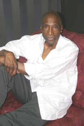 This is Hugh Bell, age 79 Copyright Hugh Bell 2006